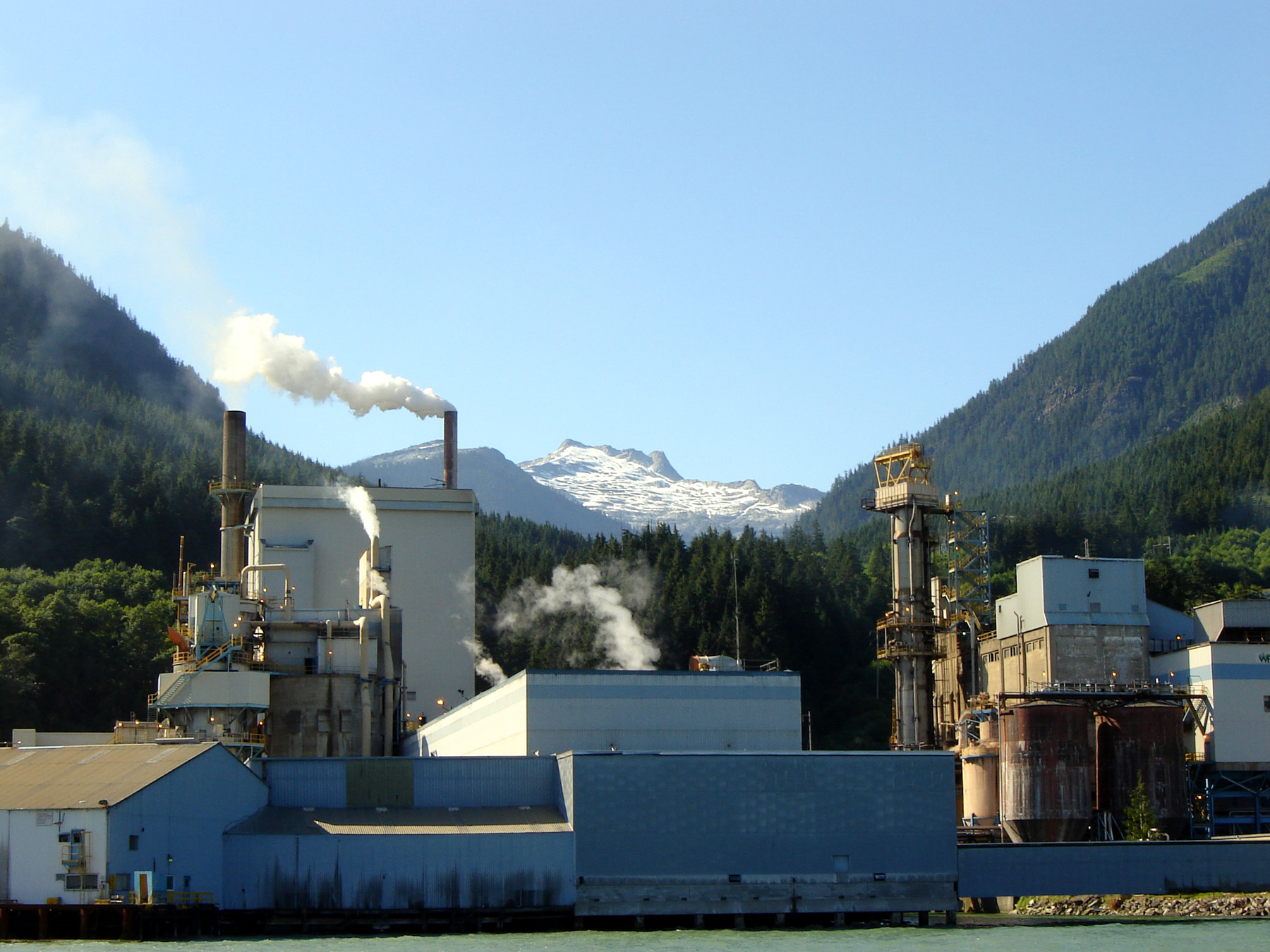 Photo by Keith Freeman Attribution req'd as per license Taken July, 2005